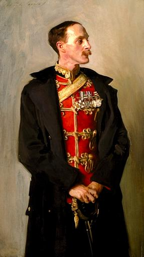 Colonel Ian Hamilton John Singer Sargent -- American painter 1898 Tate Gallery, London Oil on canvas 138.4 x 78.7 cm painting signed Presented by Gen. Sir Ian Hamilton 1940 Jpg: Tate Gallery